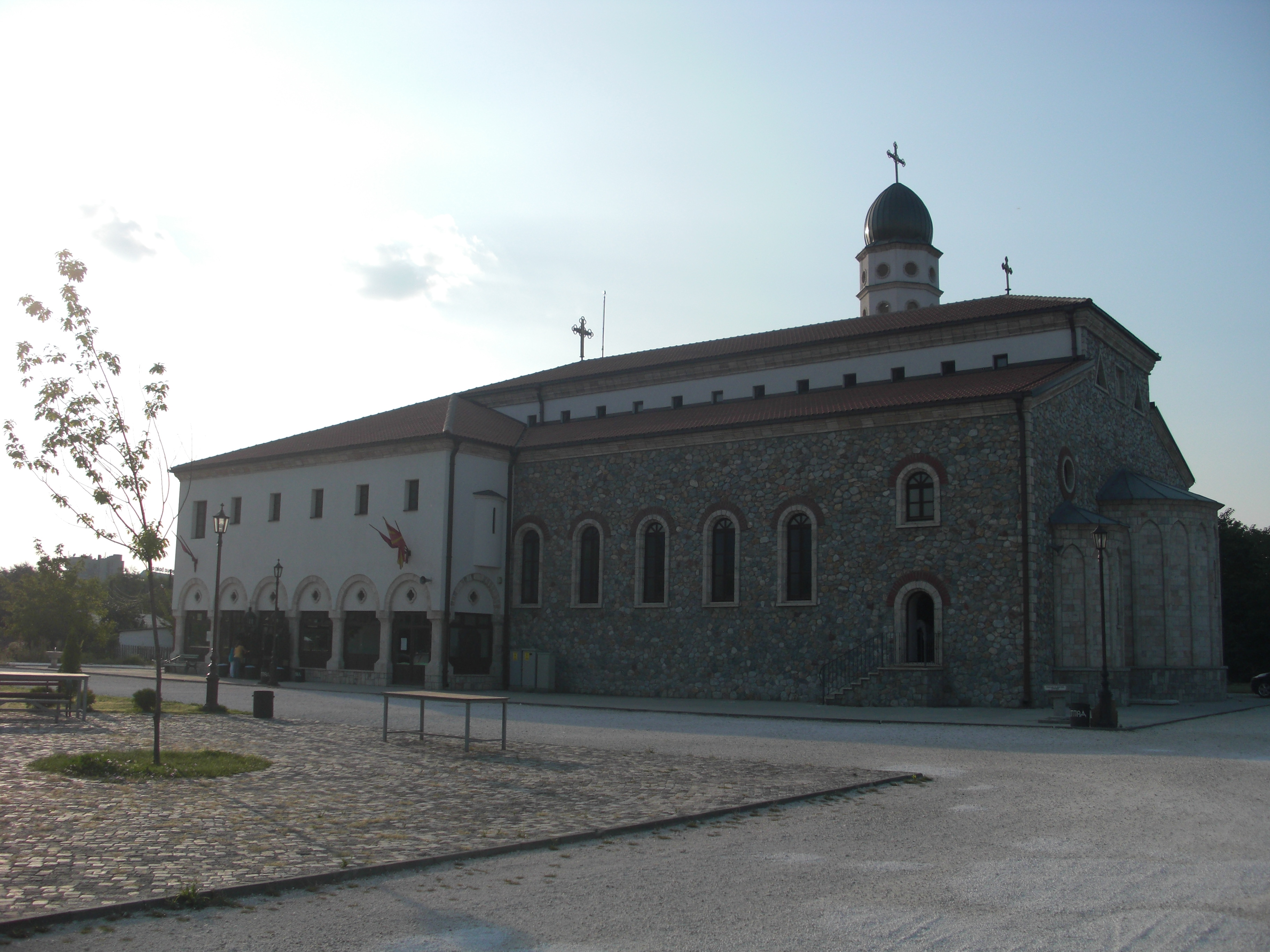 Church of the Holy Mother of God Church in Skopje, Macedonia